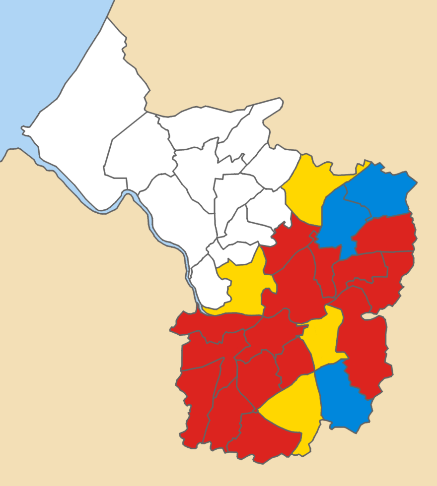 Results of the 1991 local elections in Bristol Colours: Conservative Labour Liberal Democrat No election in 1991